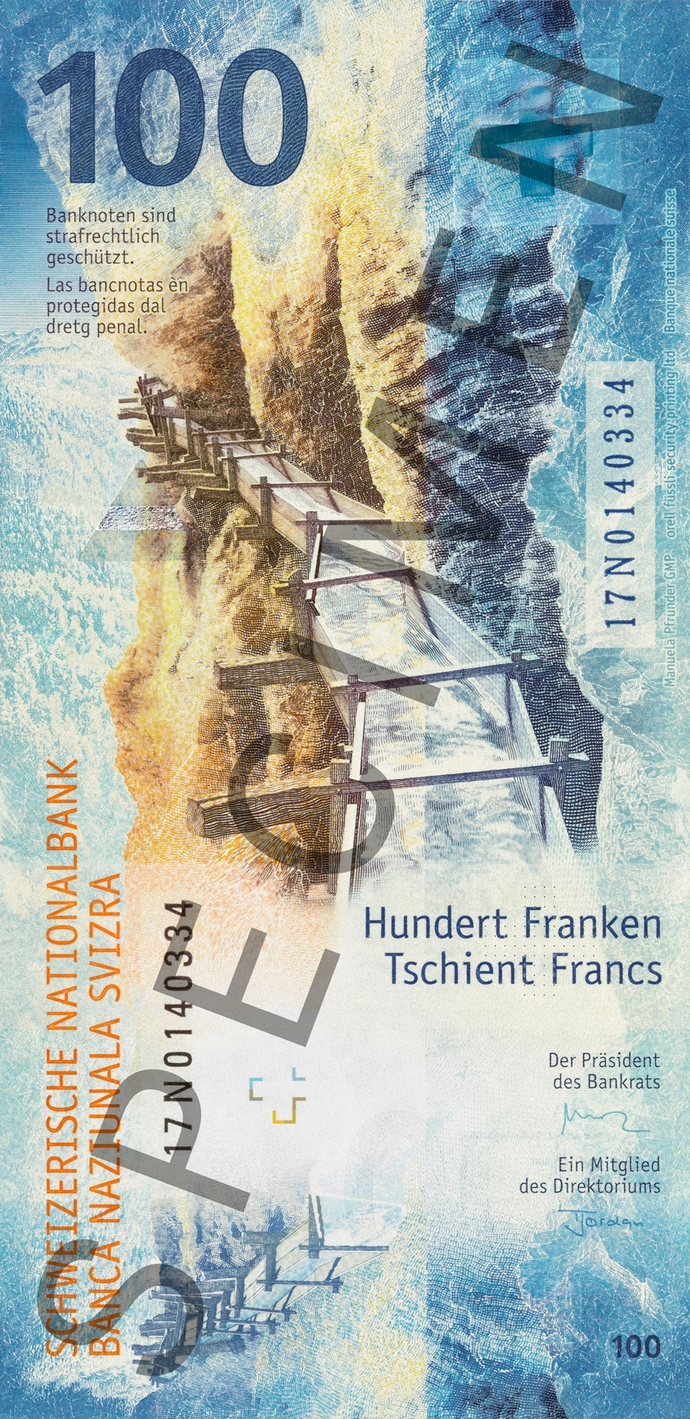 Back of the Swiss 100-franc banknote, ninth series (issued in 2019).